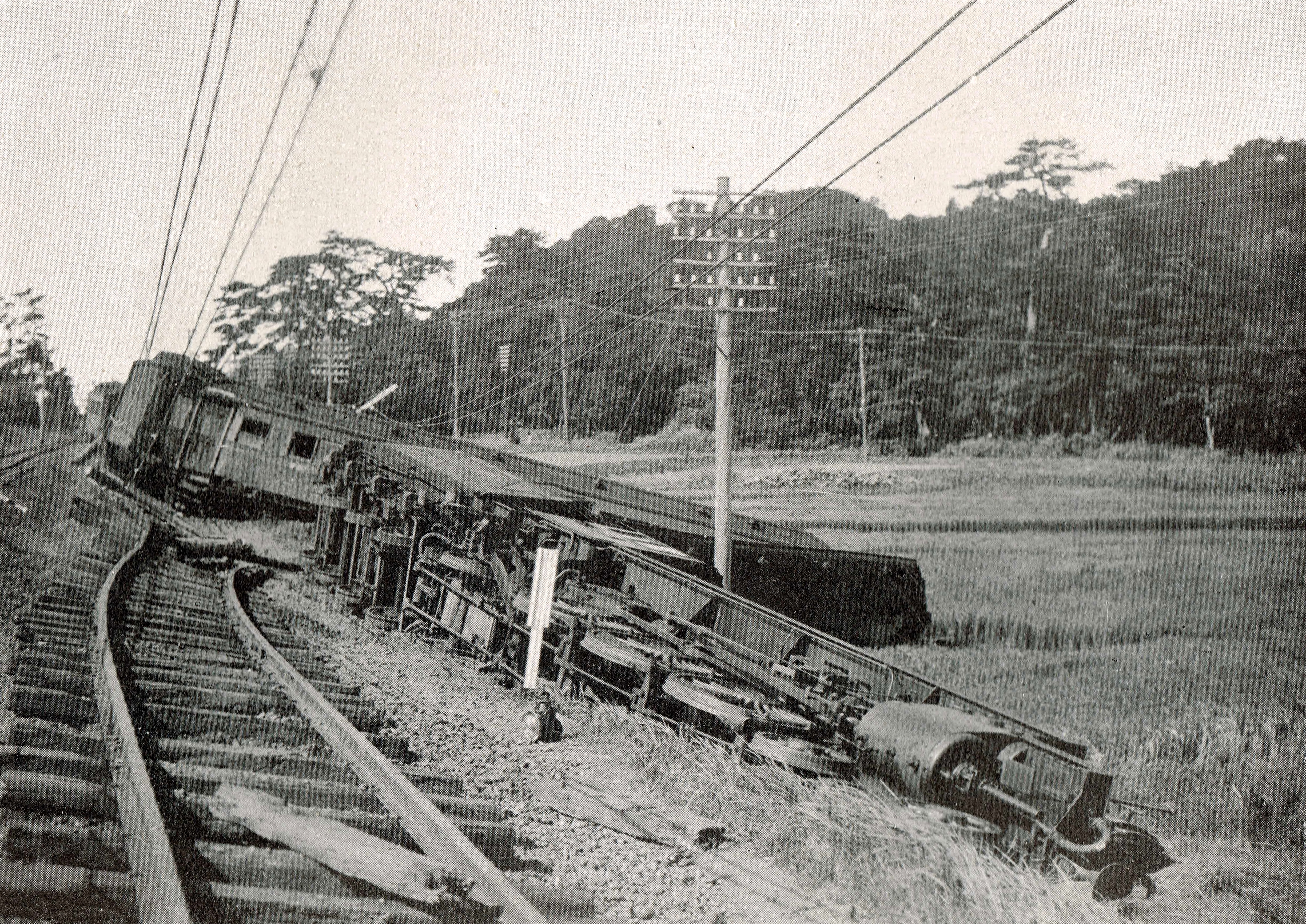 A train on the Tokaido line (near Ōiso Station) after the 1923 Great Kantō earthquake.